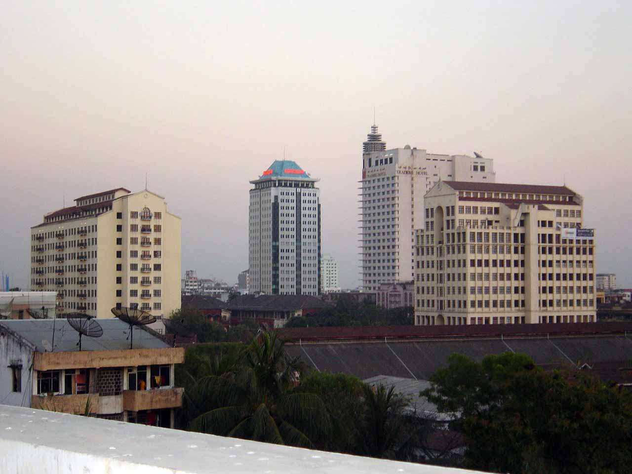 A view of Yangon, Myanmar, on February 19, 2006. Author: Jason